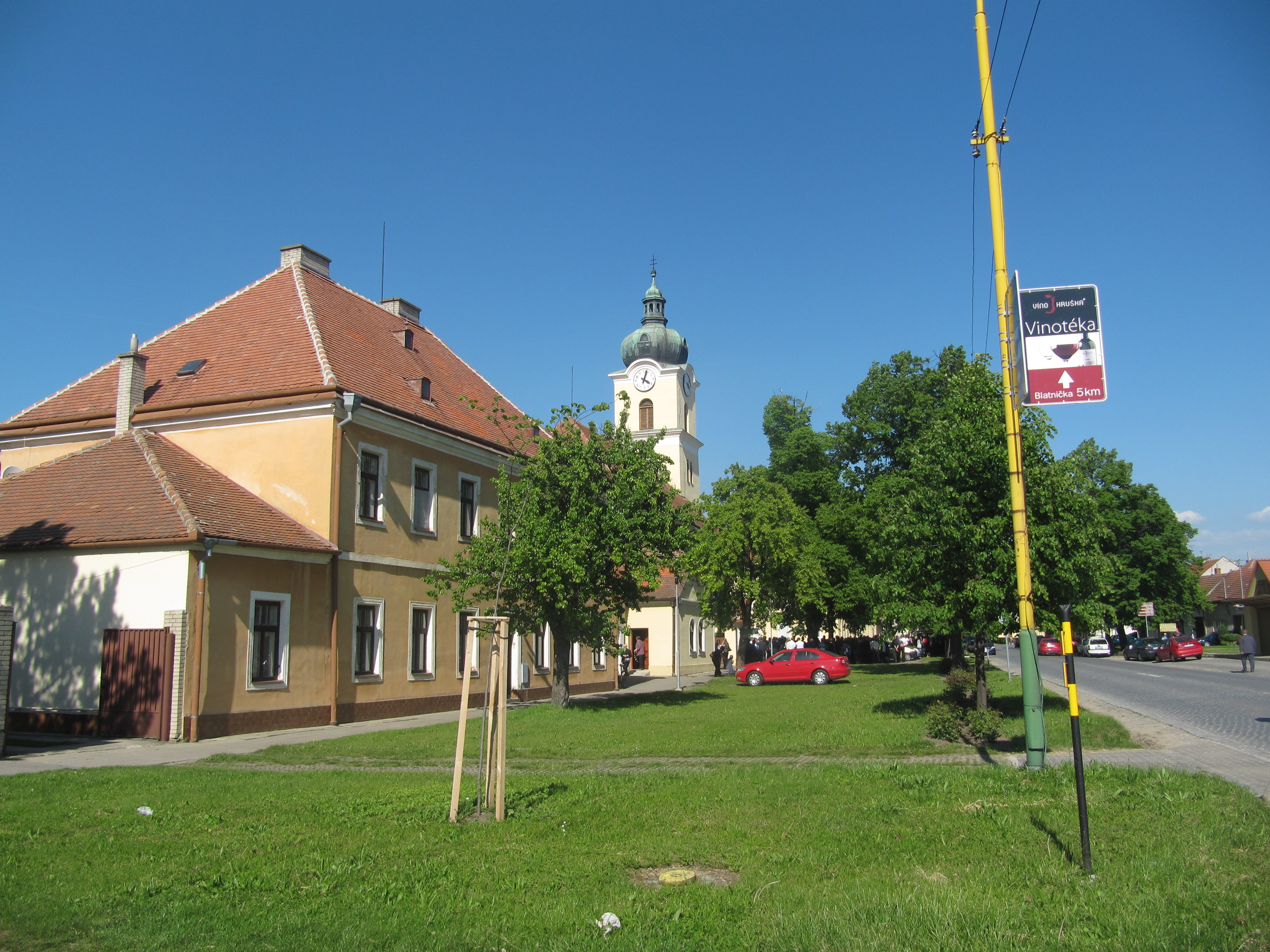 Blatnice pod Svatým Antonínkem in Hodonín District, Czech Republic. Main street with presbytery and Saint Andrew-church. This photograph was taken within the scope of the third year of the 'Czech Municipalities Photographs' grant.